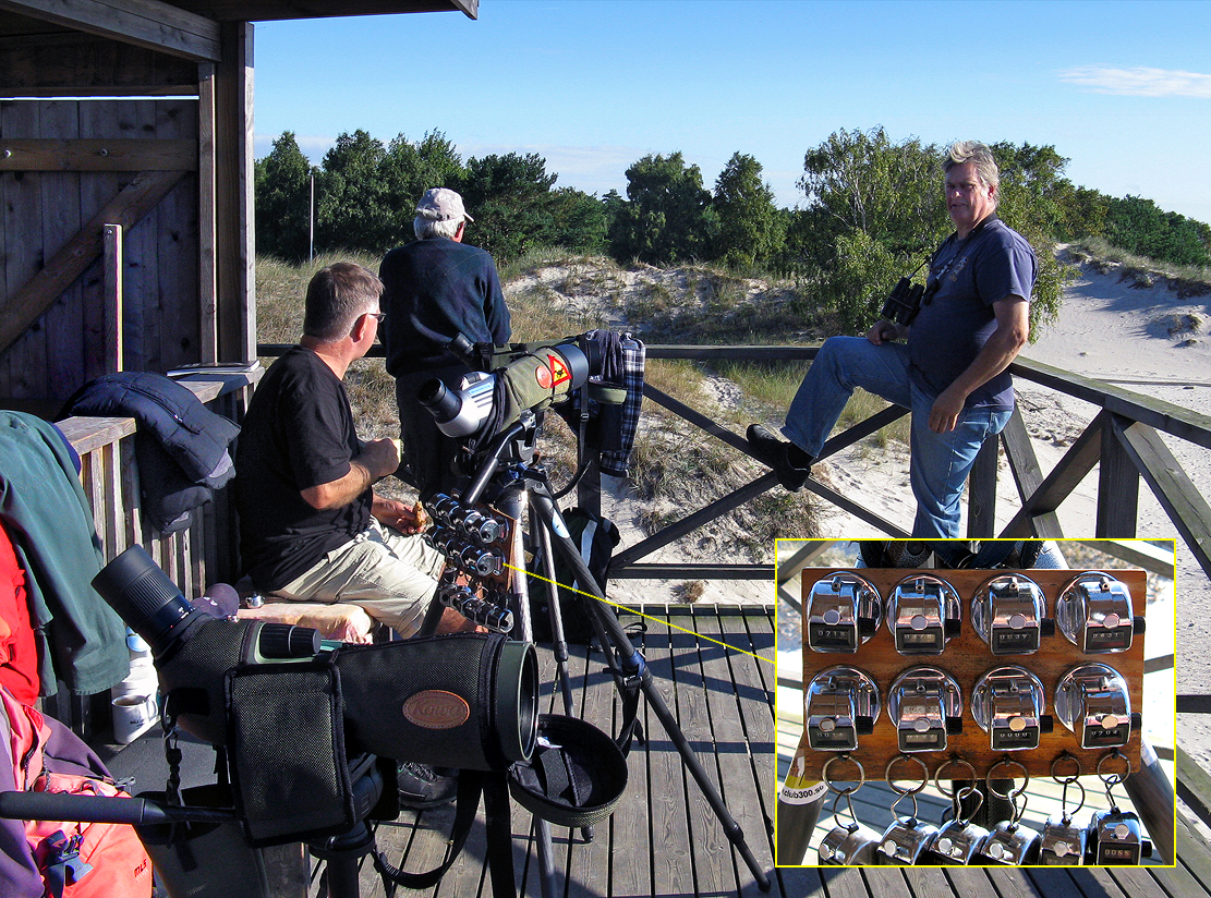 Ornithologists taking a short break during the count at Sandhammaren observation tower (Sweden). The inset picture shows the type of counter that many bird counters use. A counter for each species of the most common, in addition notes are made of the rarities, interesting and important observations.